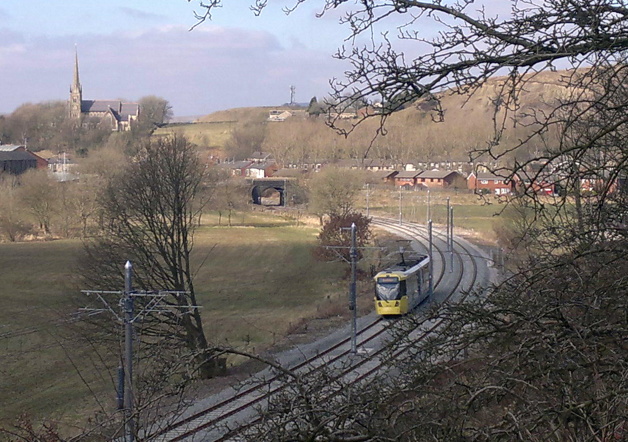 Cropped version of File:Newhey_from_Shaw.jpg. A view of Newhey from Shaw and Crompton, in Greater Manchester, England. The Oldham and Rochdale Line of the Metrolink light rail system is in view in the foreground. The spire belongs to the church of St Thomas in central Newhey, and the housing estate in red brick is named Haugh.